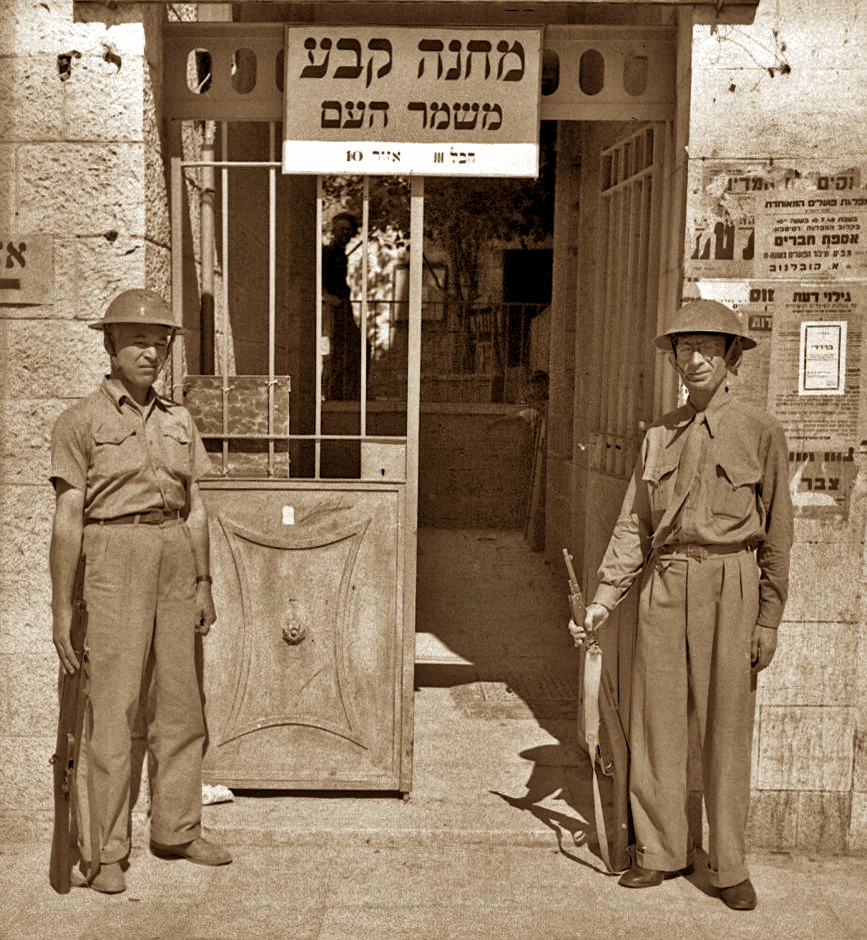 Camp of Mishmar HaAm (People's Guard, Jewish Civil Defense) in Jerusalem